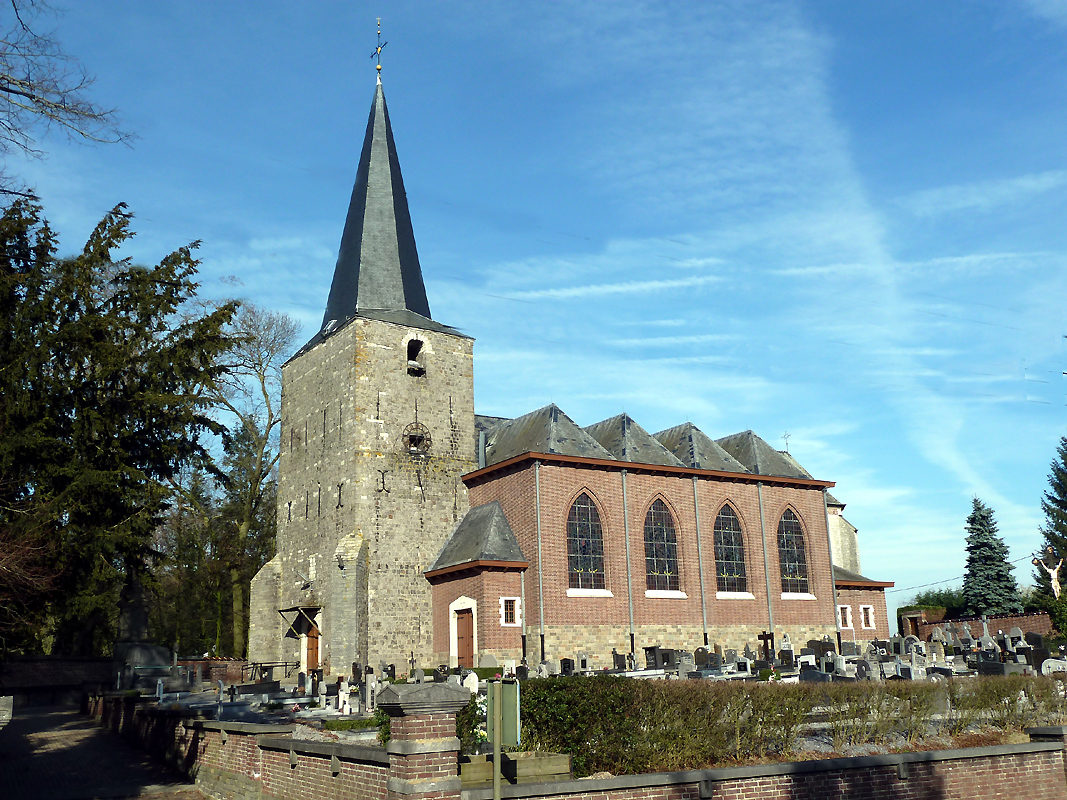 St. Quirinus church Bunsbeek